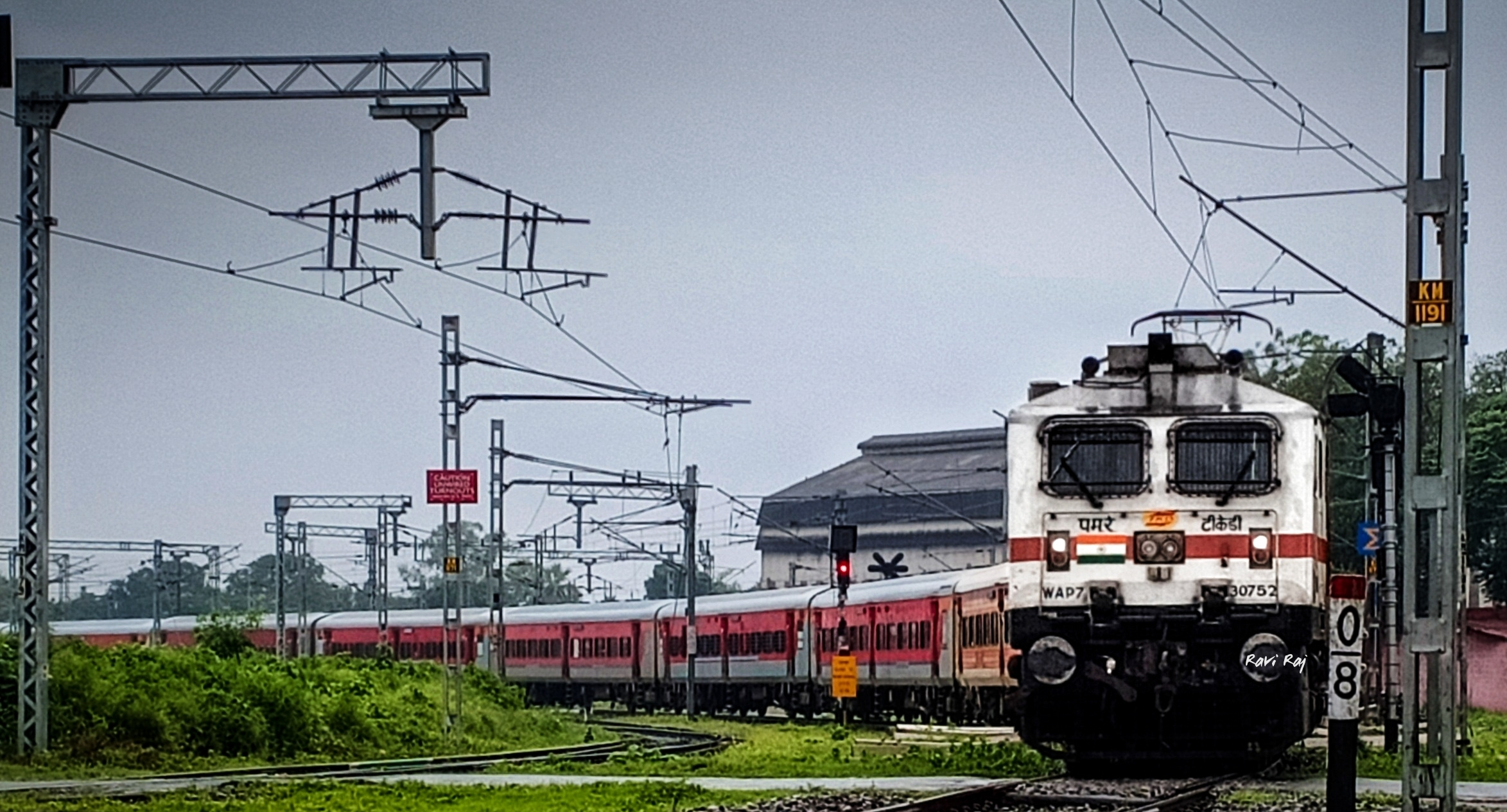 ASR-NJP Karmabhoomi Exp departing Katihar